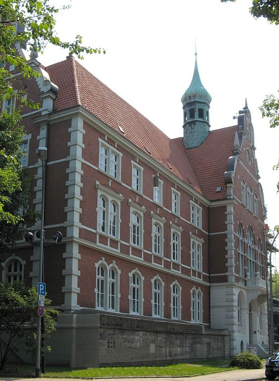 City-Hall, Herne/Wanne-Eickel, Germany. The former City-Hall of Wanne-Eickel. After the twinning with Herne most offices were moved to Herne City-Hall., Herne